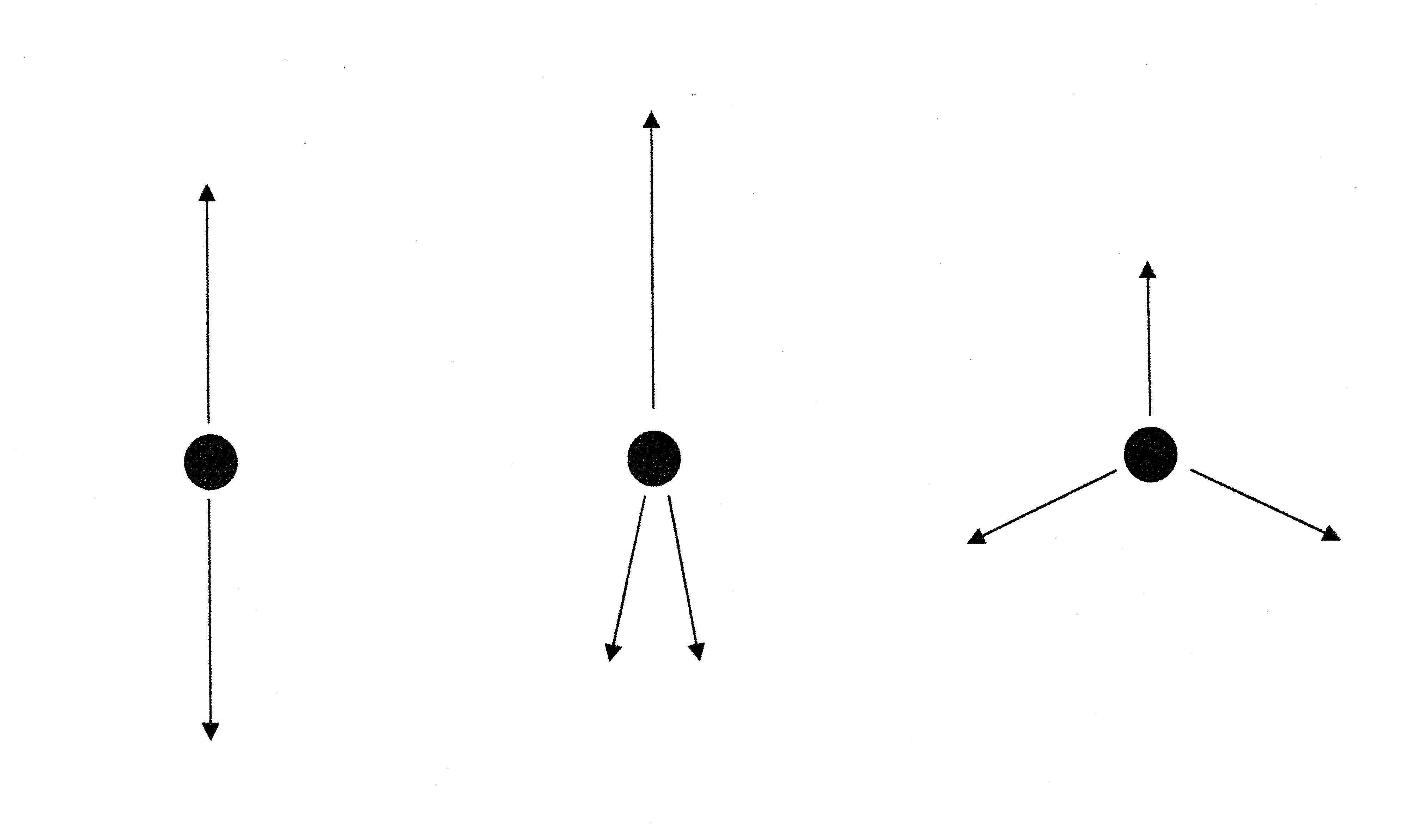 Schematic particle decay into 2 or 3 product particles